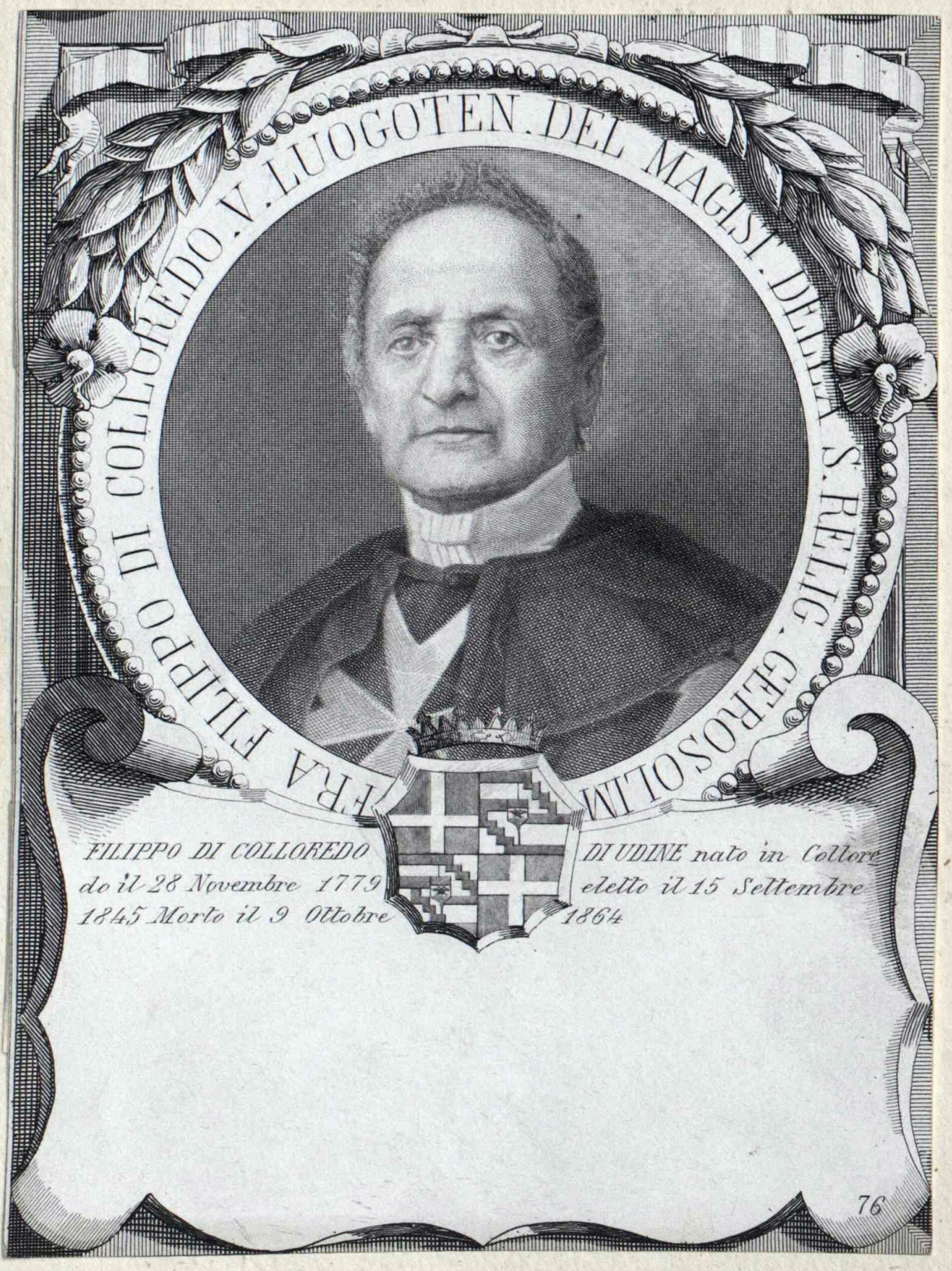 Philipp von Colloredo-Mels (1778-1864), Großkreuz-Bailli und Statthalter des Souveränen Malteserordens